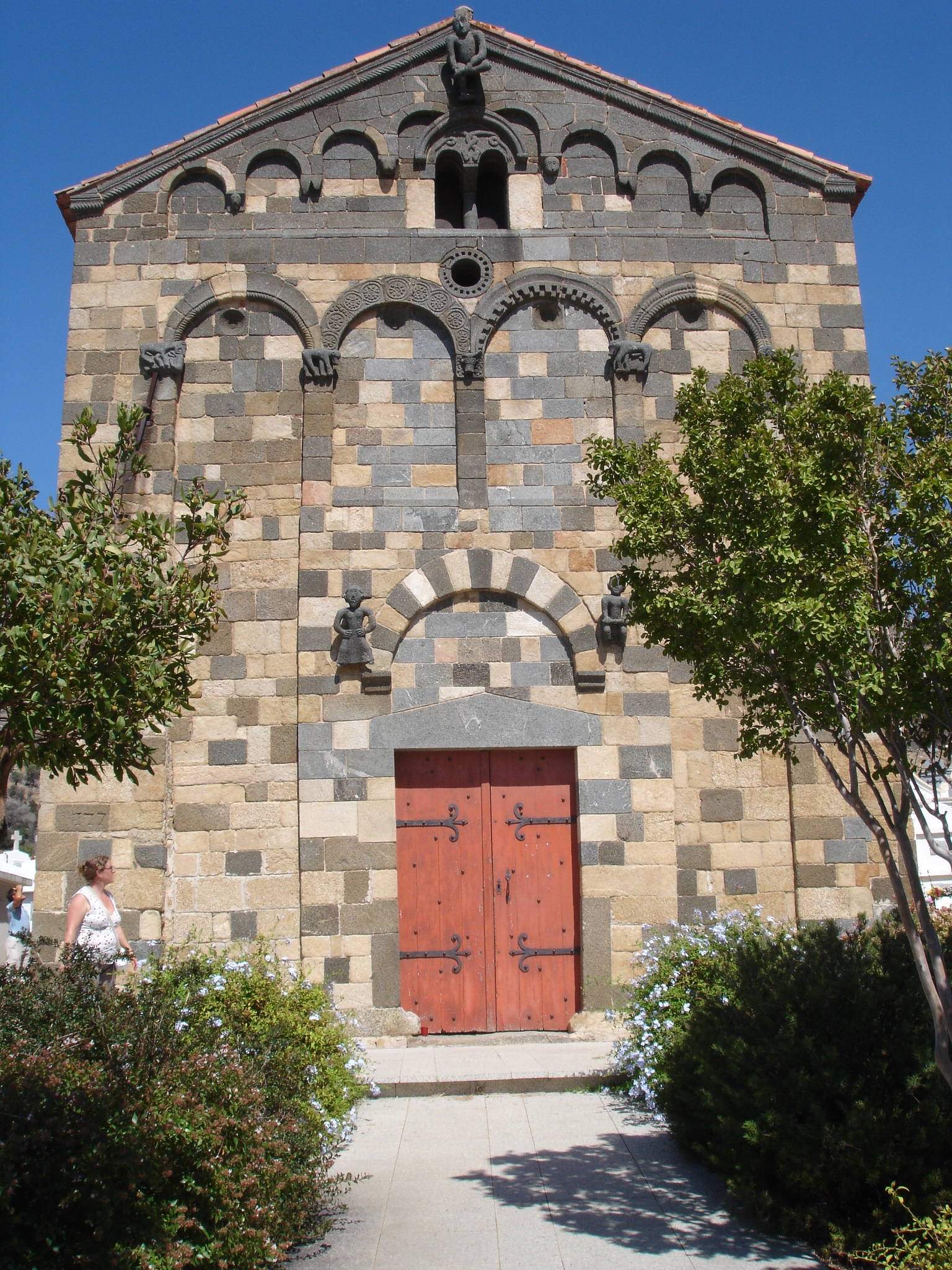 The influence of Pisa in Corsica can be seen in the Romanesque-Pisan style of the Church of Aregno built in the 11th century.